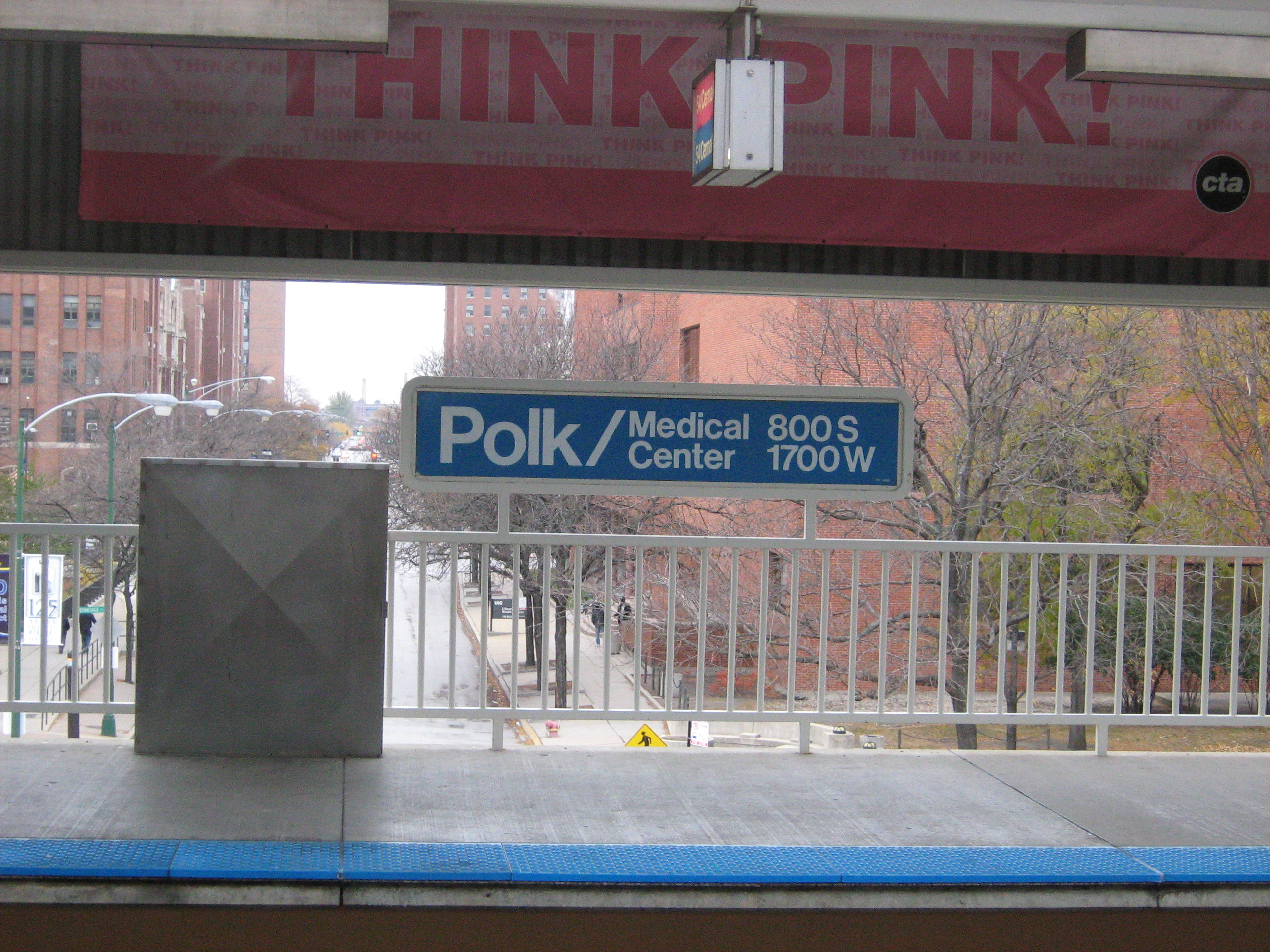 An older version of one of the sign at the Polk with the name "Polk/Medical Center." Above the sign along the platform is a temporary sign reading "Think Pink," which refers to the Chicago Transit Authority's transition of the Cermak Branch into the Pink Line.